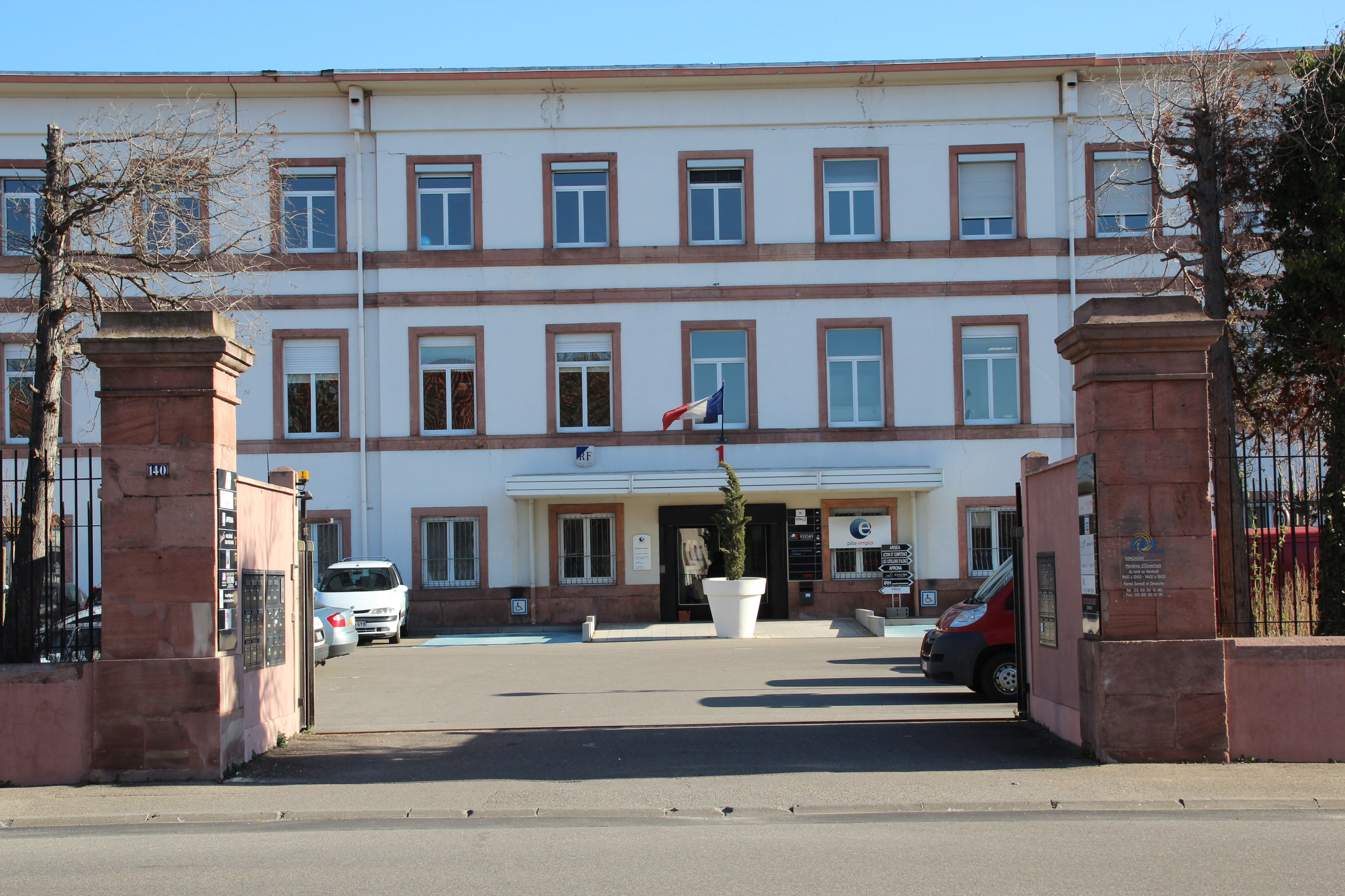 Employment center (Pôle emploi) located 140 Logelbach street in Colmar, France.